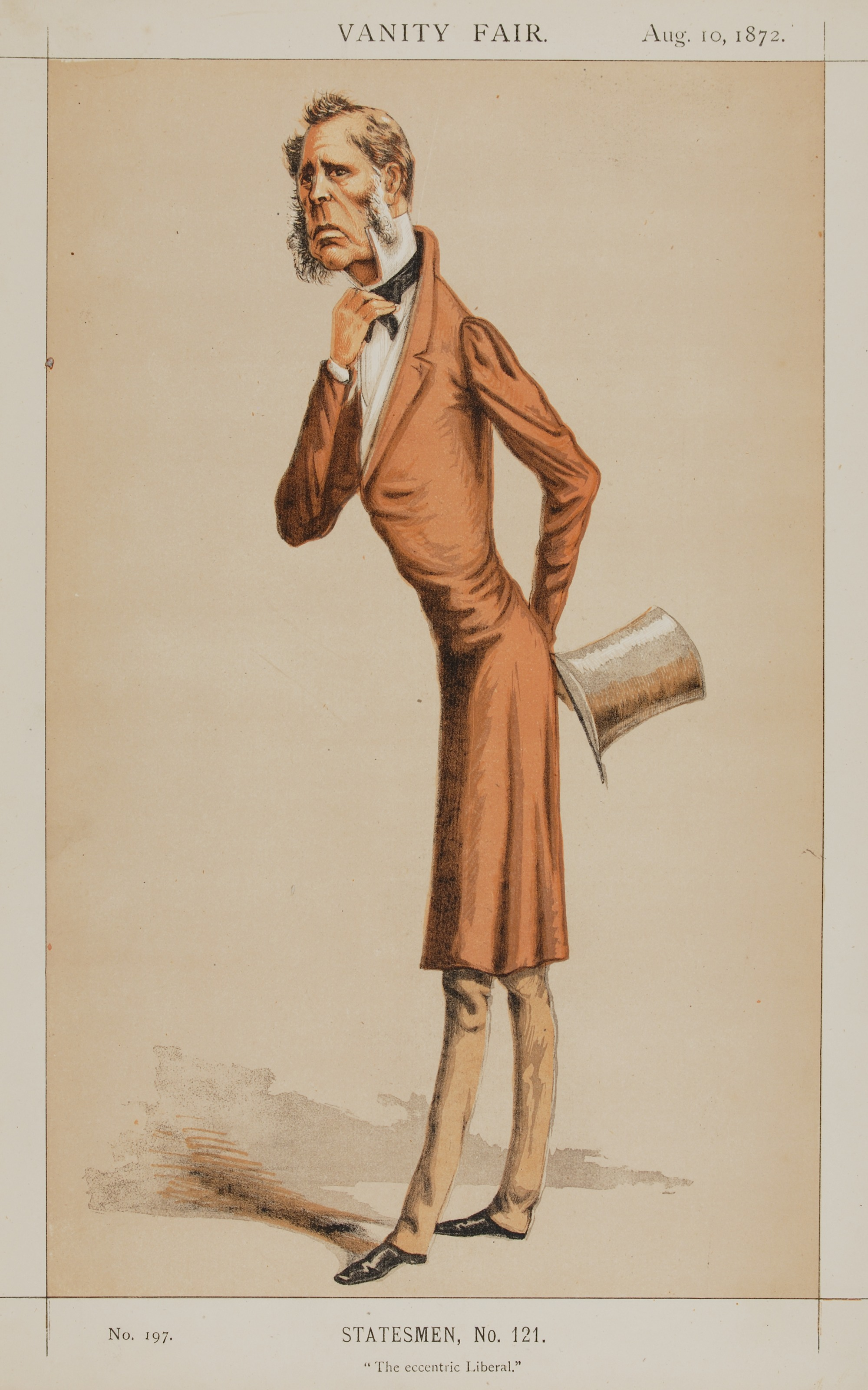 Statesmen No.121: Caricature of The Rt Hon Edward Horsman MP (1807-1876). Caption reads: "The eccentric Liberal"